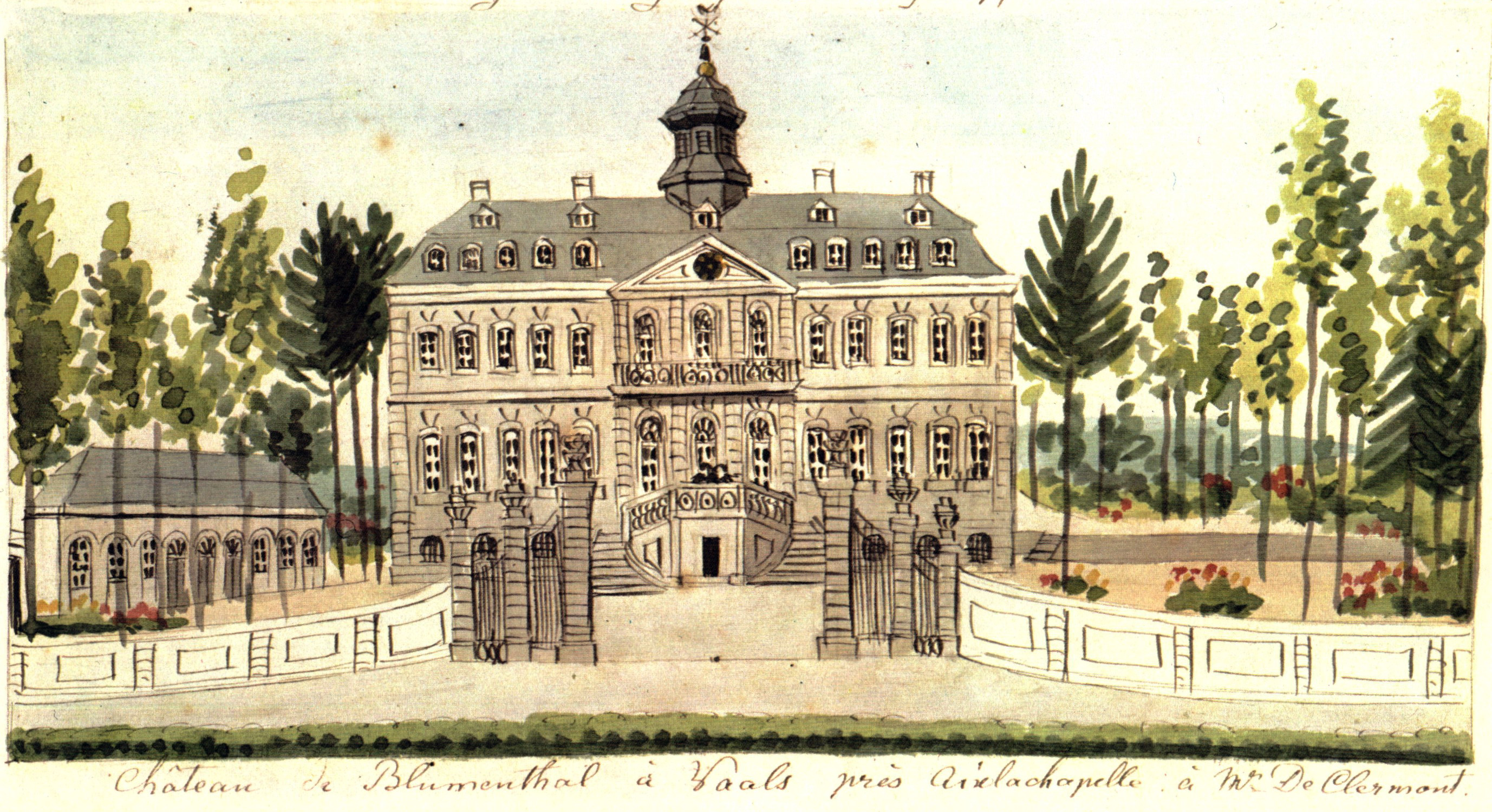 View of Bloemendal castle in Vaals, Limburg, the Netherlands. Drawing by Philippus van Gulpen (c 1840-60)